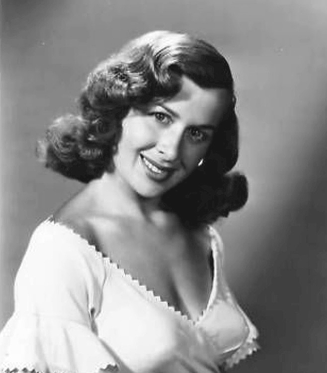 Photo of Helen Grayco from the cover of Down Beat Magazine, 1951. Note that the photo is a a better quality copy then the original cover photo. A search for renewals was done at for Down Beat. There were no renewals for issues earlier than 1952. There's no evidene of continuing copyright on the magazine.